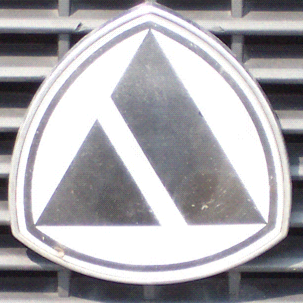 photo aus autobianchi logo my foto on 18/06/05